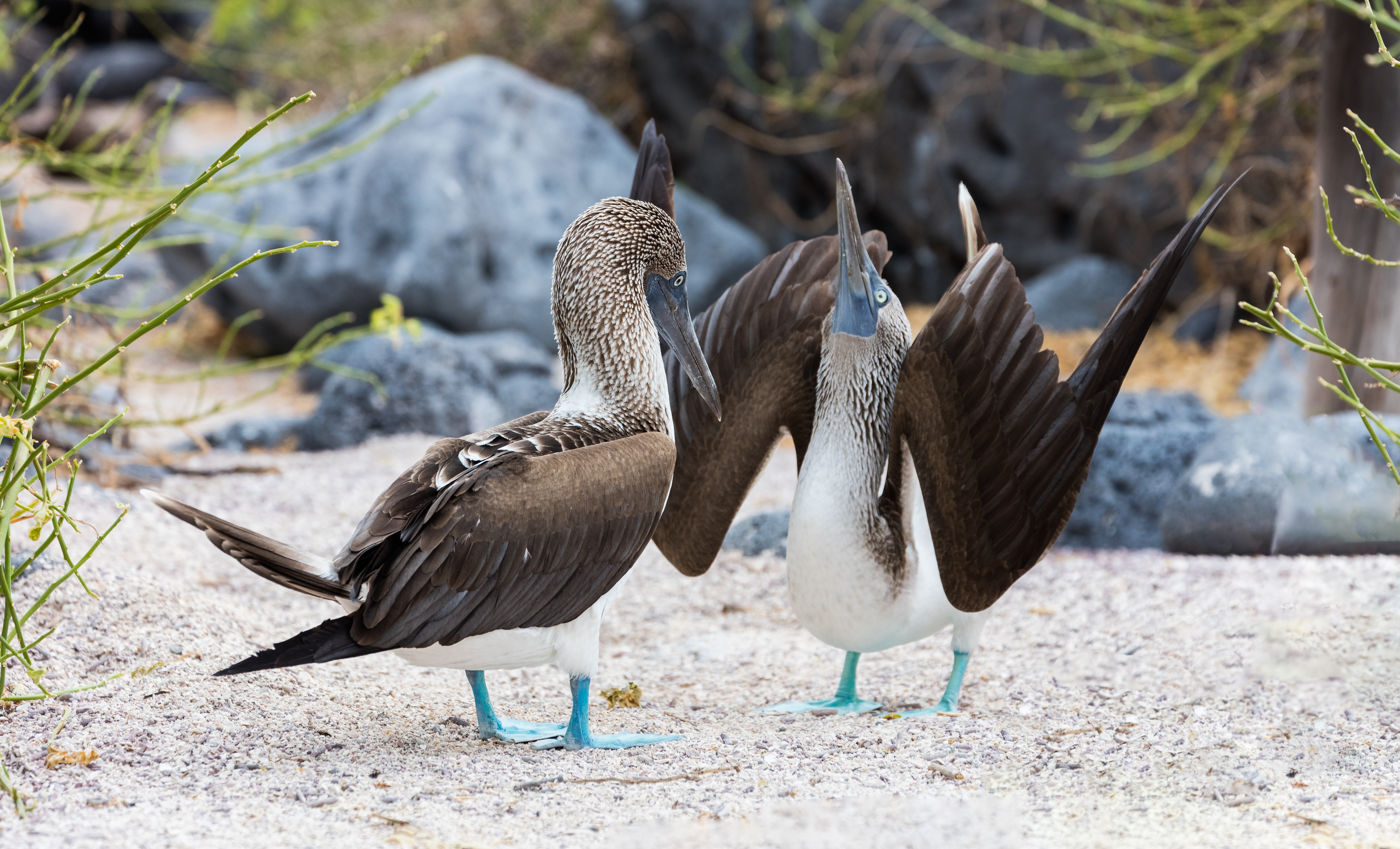 Blue-footed booby (Sula nebouxii), Lobos Island, Galapagos Islands, Ecuador